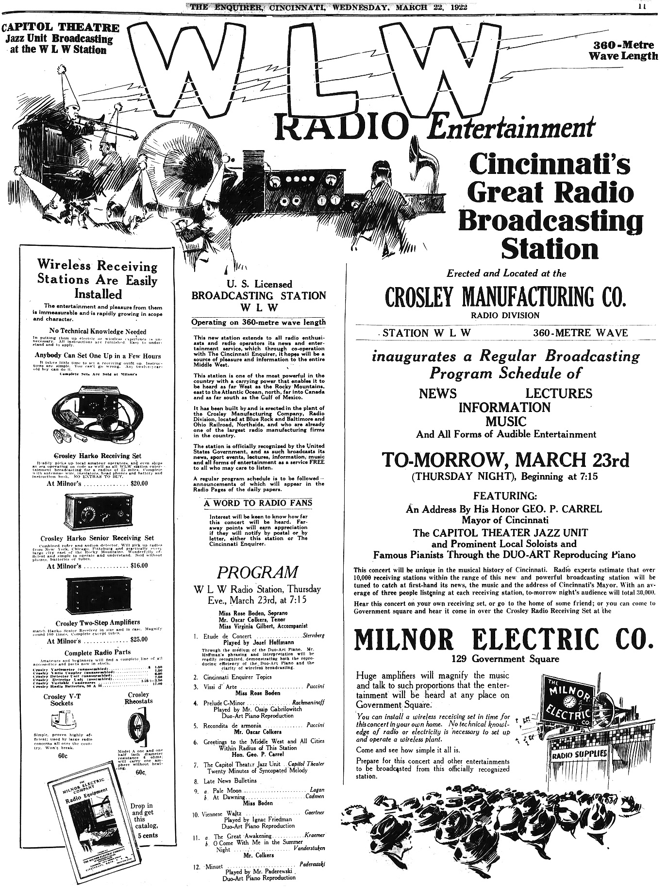 Milnor Electric company advertisement for its radio wares, placed in conjunction with the March 23, 1922 debut broadcast of the Crosley company's radio station, WLW